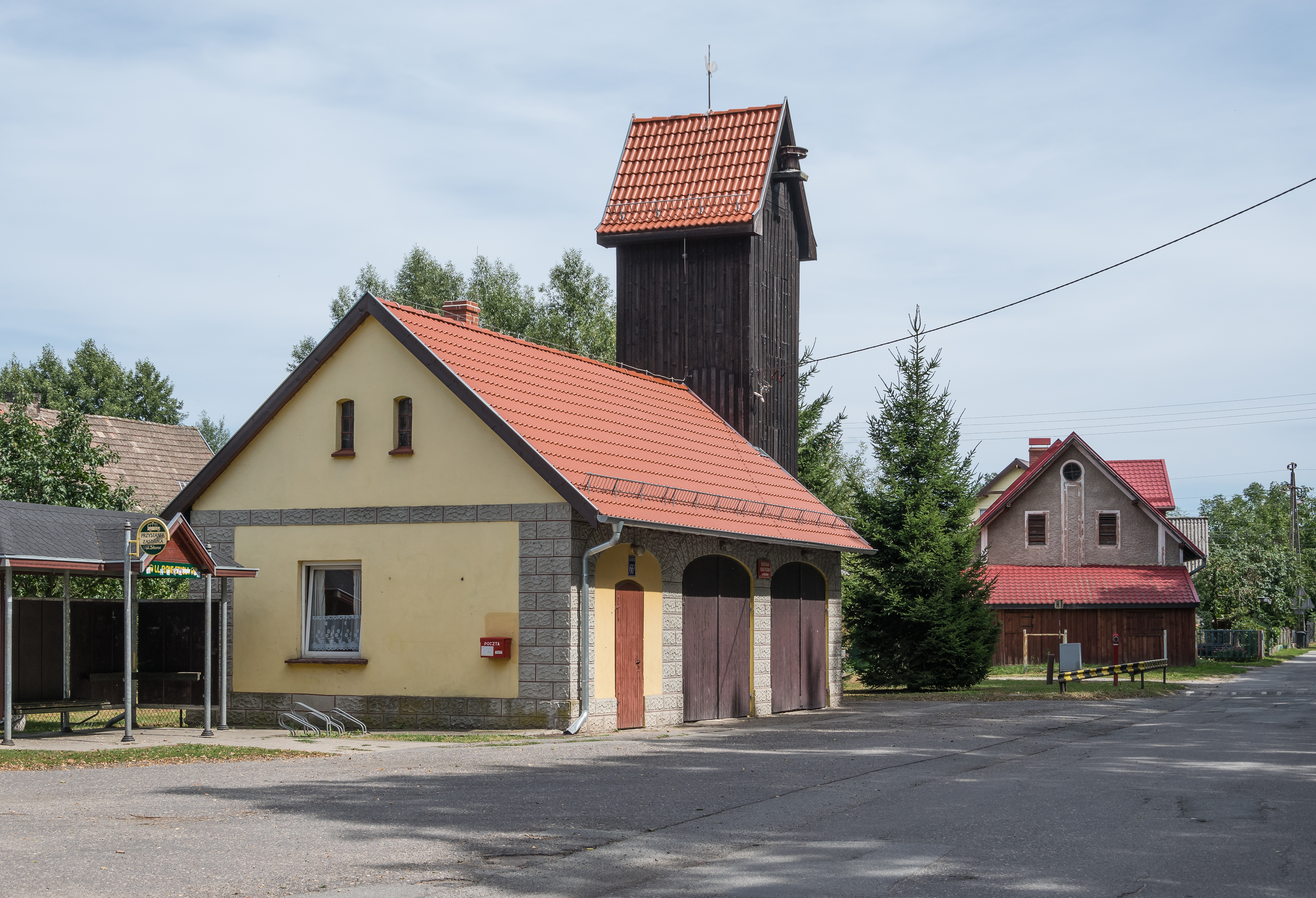 Fire station in Kudowa-Zdrój